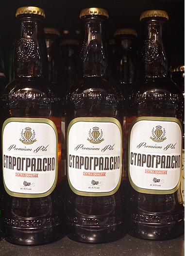 Starogradsko Macedonian lager beer